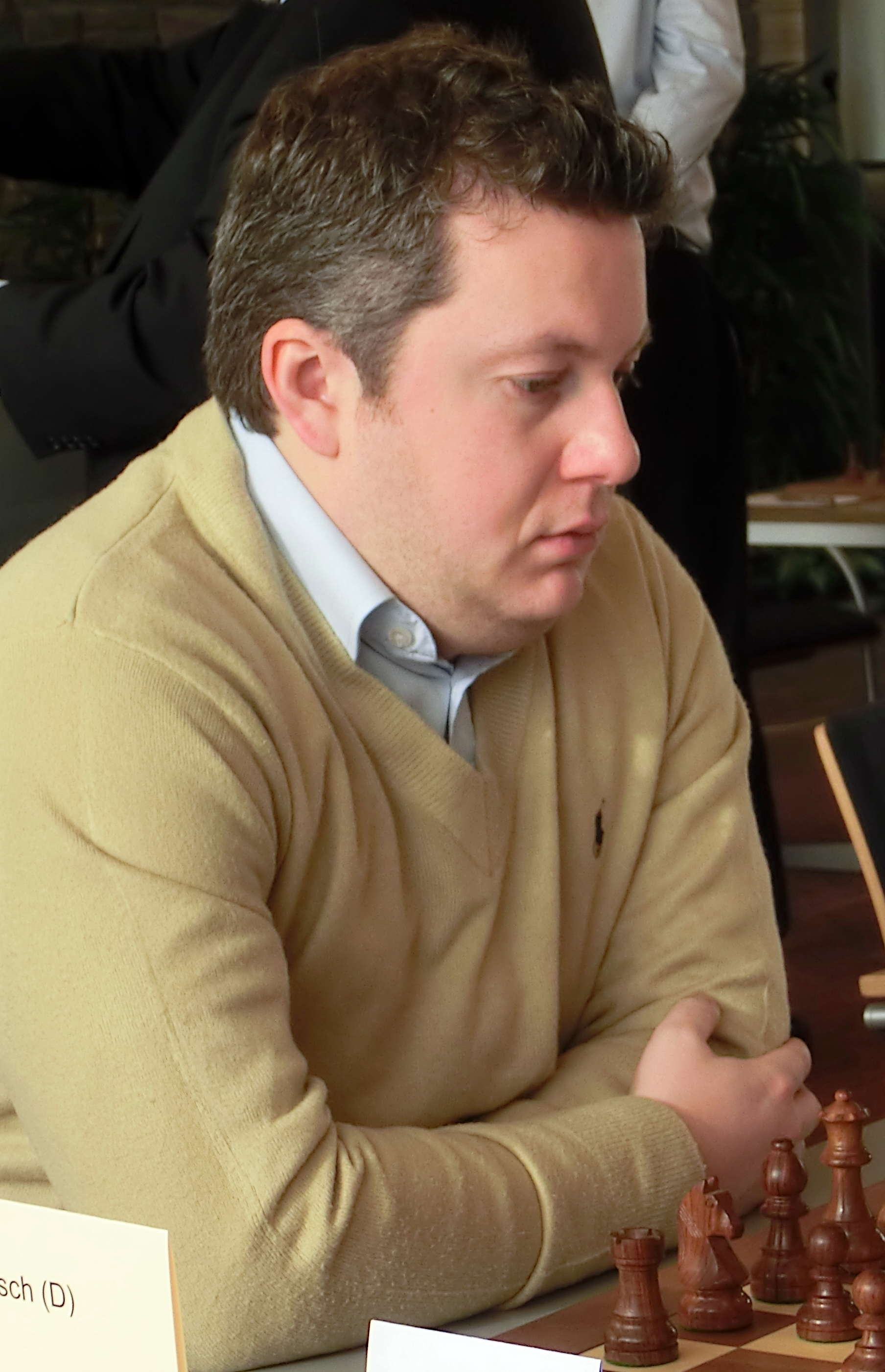 Arkadij Naiditsch, chess grandmaster from Germany